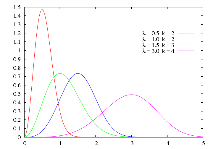 Weibul probability density function. Made by me with Gnuplot. Anarkman 08:30, 25 March 2006 (UTC).